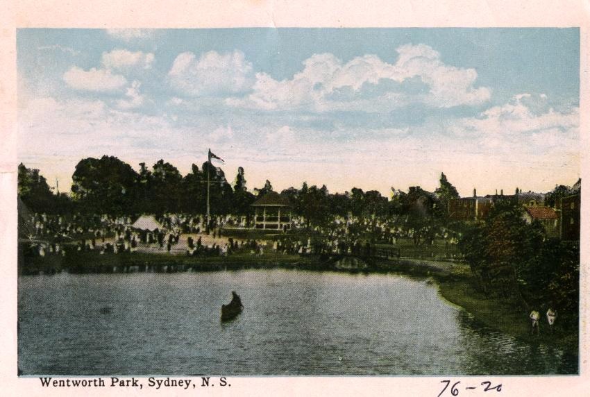 Item is a hand-colored postcard featuring Wentworth Park, Sydney (N.S.), 10cm x 15cm Wentworth Park is a Canadian urban park located in the community of Sydney, part of Nova Scotia's Cape Breton Regional Municipality. The park incorporates the the Kiwanis Banshell, a small network of paved paths, as well as a Playground. The park centres around Wentworth Creek, which form a series of interconnected ponds running through the park. Much of the park is lawn, suitable for informal recreation, with many towering trees for shade. The park encompass 12 acres (4.9 ha) within the former city's boundaries.